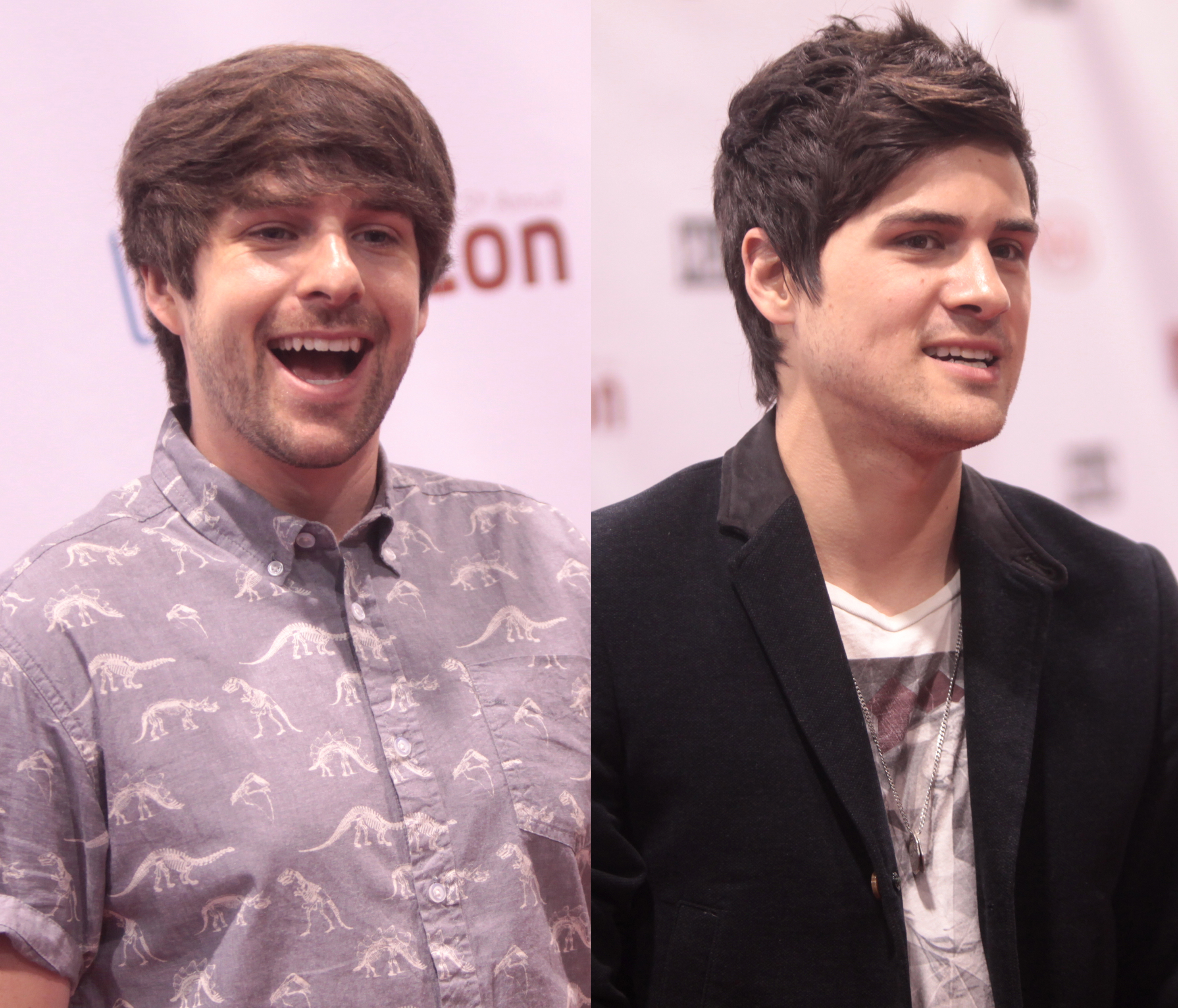 Smosh speaking at the 2014 VidCon on June 28, 2014.